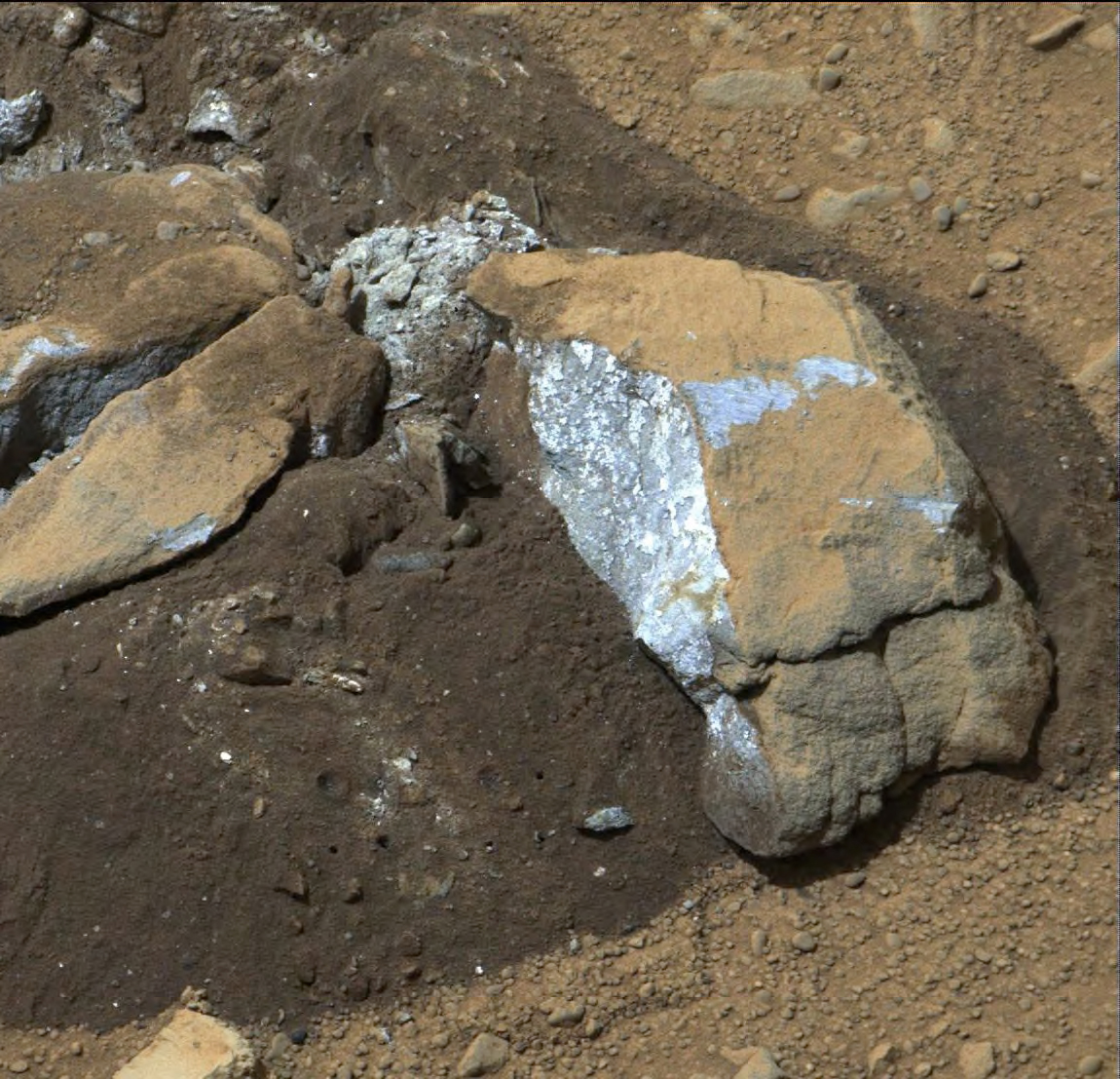 The Mast Camera (Mastcam) on NASA's Mars rover Curiosity showed researchers interesting internal color in this rock called "Sutton_Inlier", which was broken by the rover driving over it. The Mastcam took this image during the 174th Martian day, or sol, of the rover's work on to Mars (Jan. 31, 2013). The rock is about 5 inches (12 centimeters) wide at the end closest to the camera. This view is calibrated to estimated "natural" color, or approximately what the colors would look like if we were to view the scene ourselves on Mars. The inside of the rock, which is in the "Yellowknife Bay" area of Gale Crater, is much less red than typical Martian dust and rock surfaces, with a color verging on grayish to bluish.